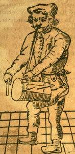 Richard Tarlton, woodcut, 1588